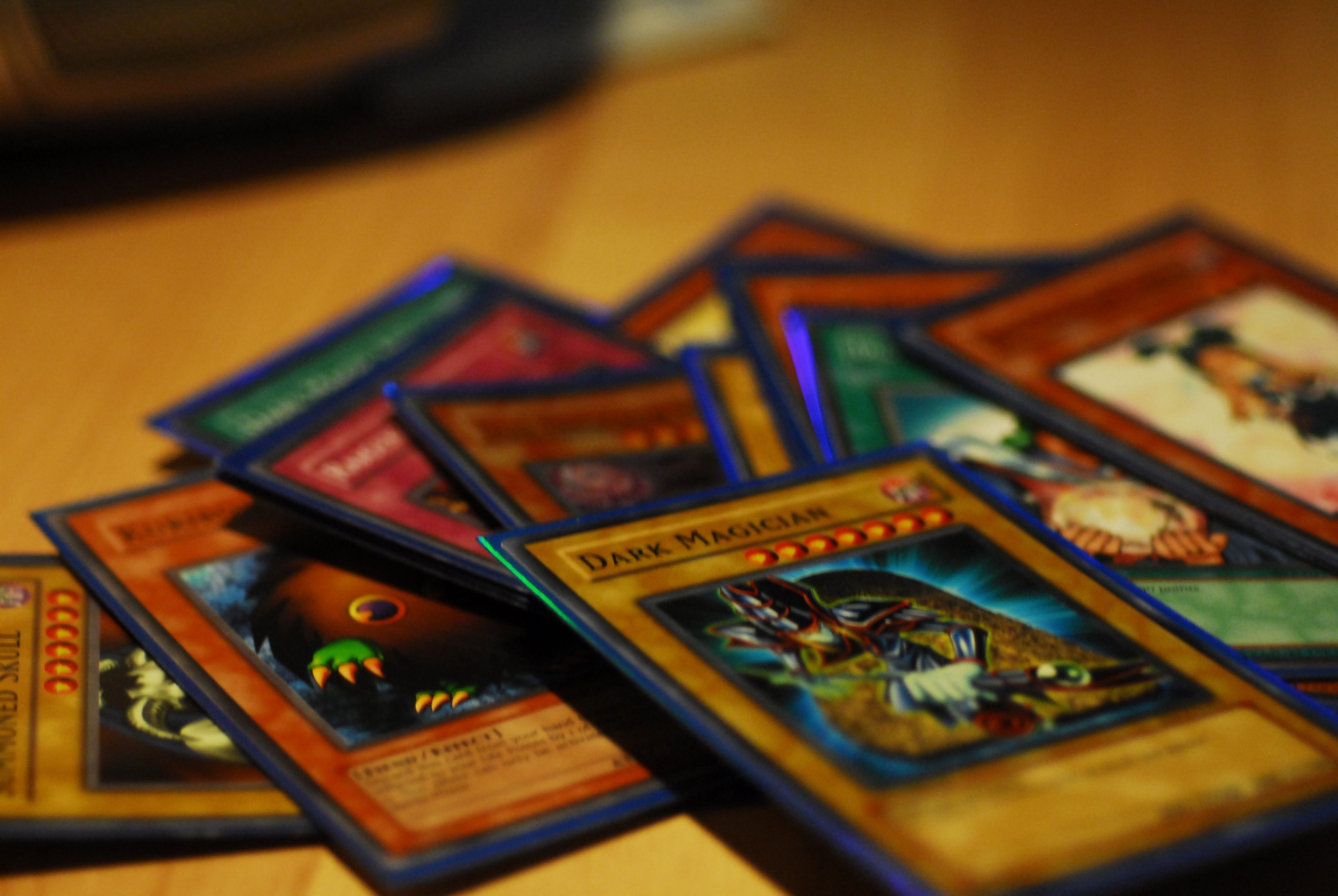 Some Yu-Gi-Oh! cards